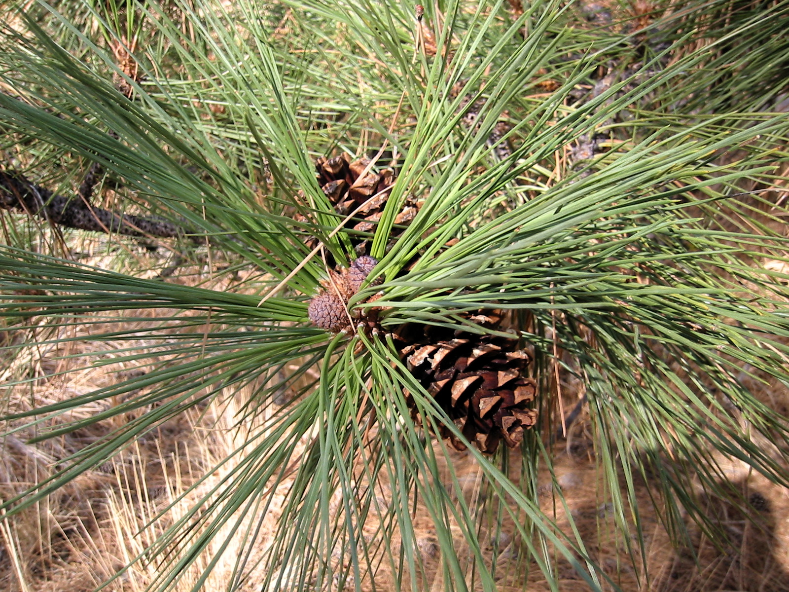 North Plateau Ponderosa Pine, foliage and female cones of two ages